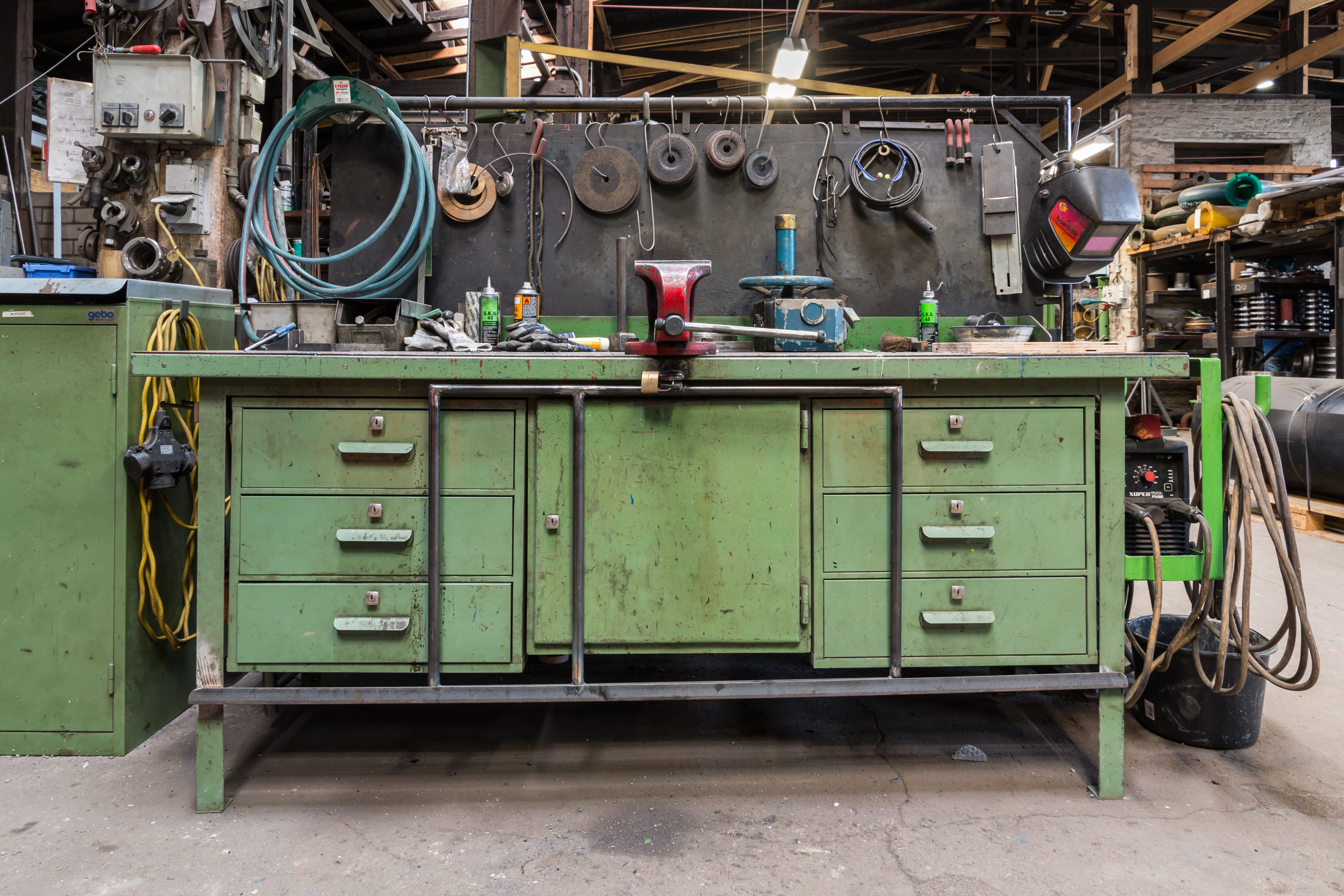 Workbench, tool shed of the Quarzwerke in Sythen, Haltern, North Rhine-Westphalia, Germany